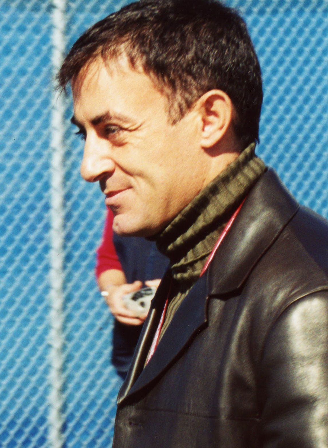 Jean Alesi, Indianapolis, 2001